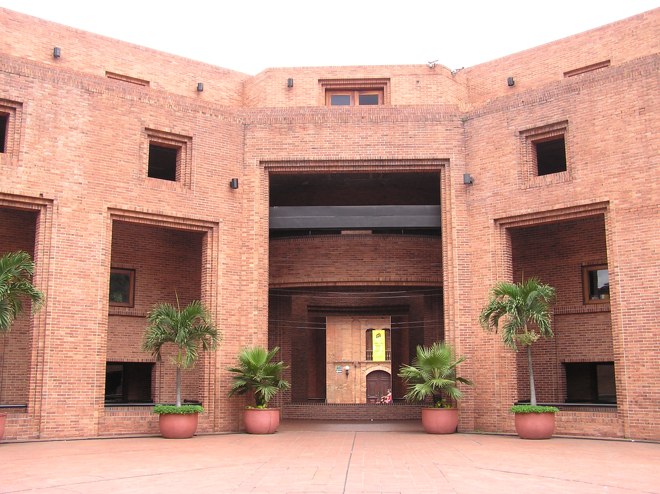 interior view of FES Building, Cali, Colombia